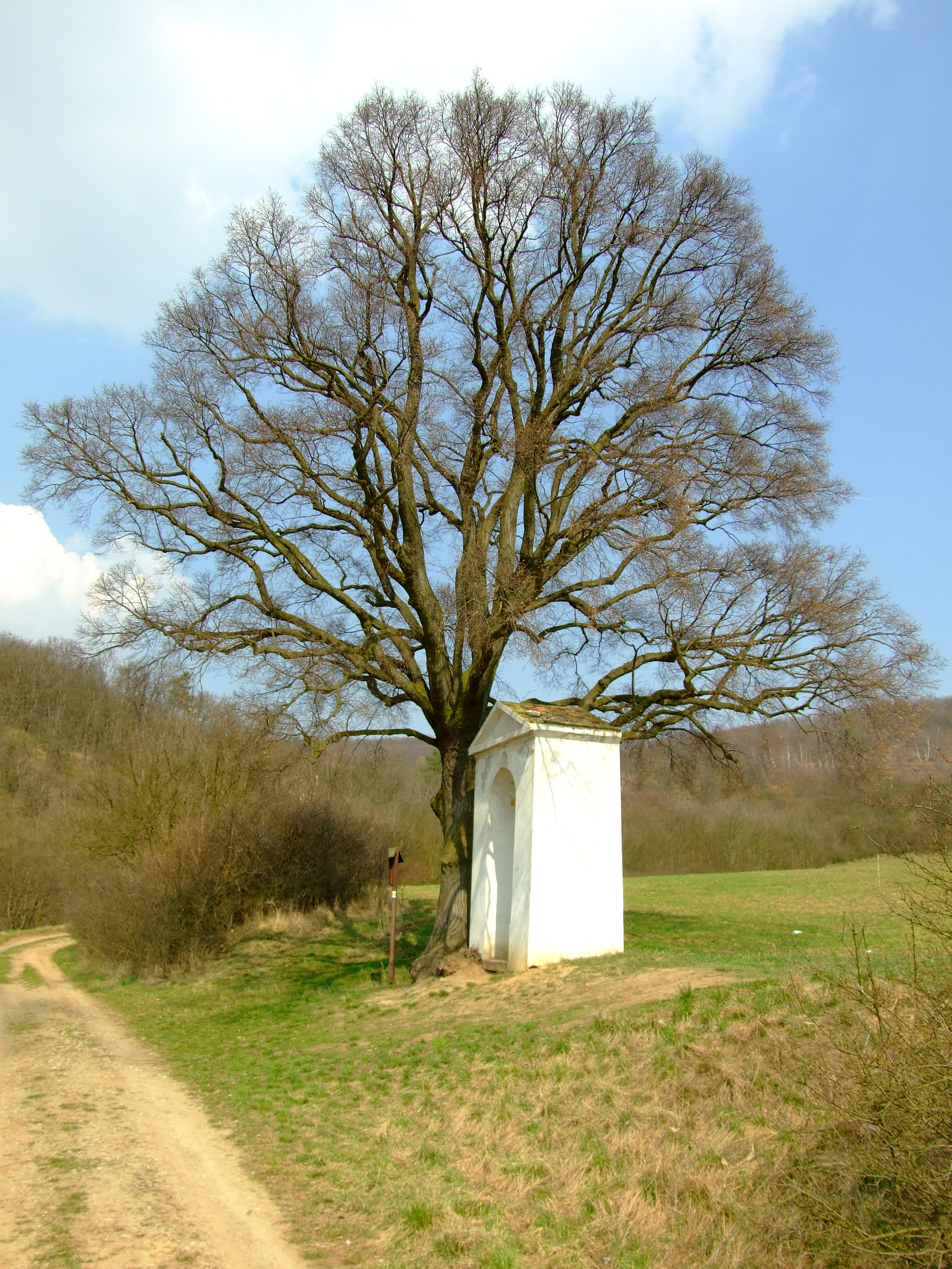 Protected Landscape Area Český kras, Central Bohemian Region, CZ